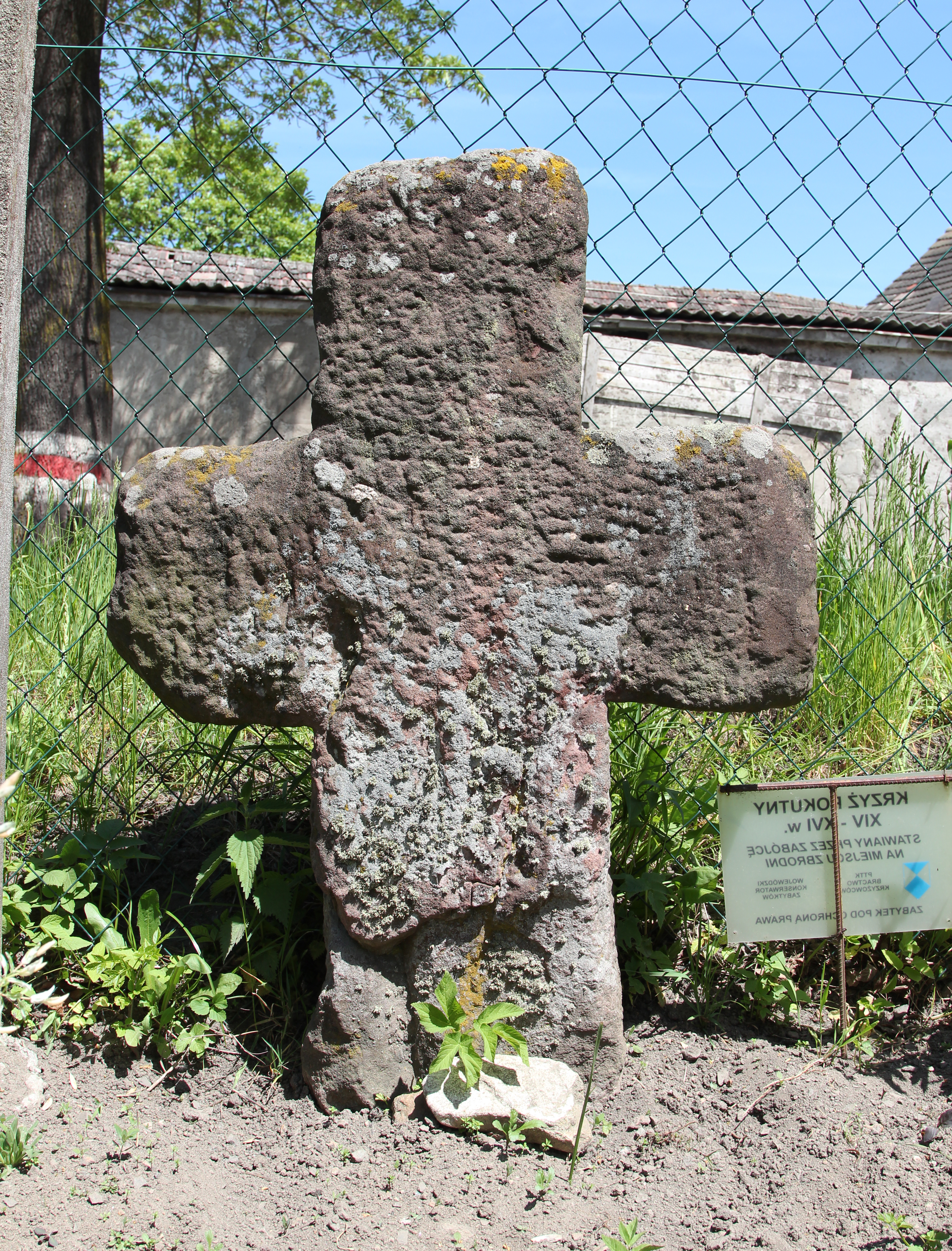 Stone cross in Wolibórz